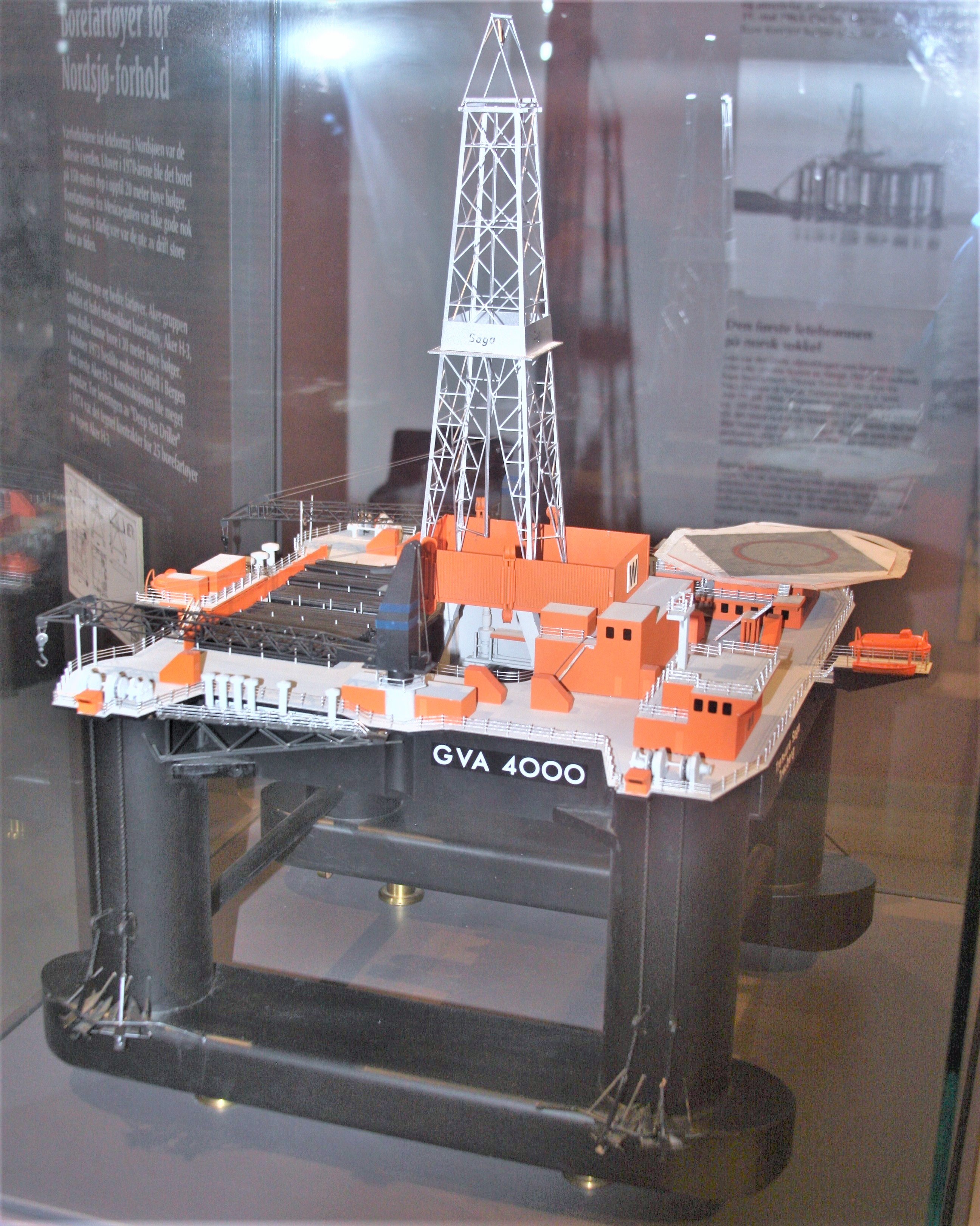 Oil platform "Treasure Saga", of the GVA 4000 type in much use after the "Alexander Kielland" disaster in the North Sea. Built by GötaVerken Arendal in Gothenburg, 1983. Owned by Wilh Wilhelmsen, Norway. Technical Museum, Oslo.